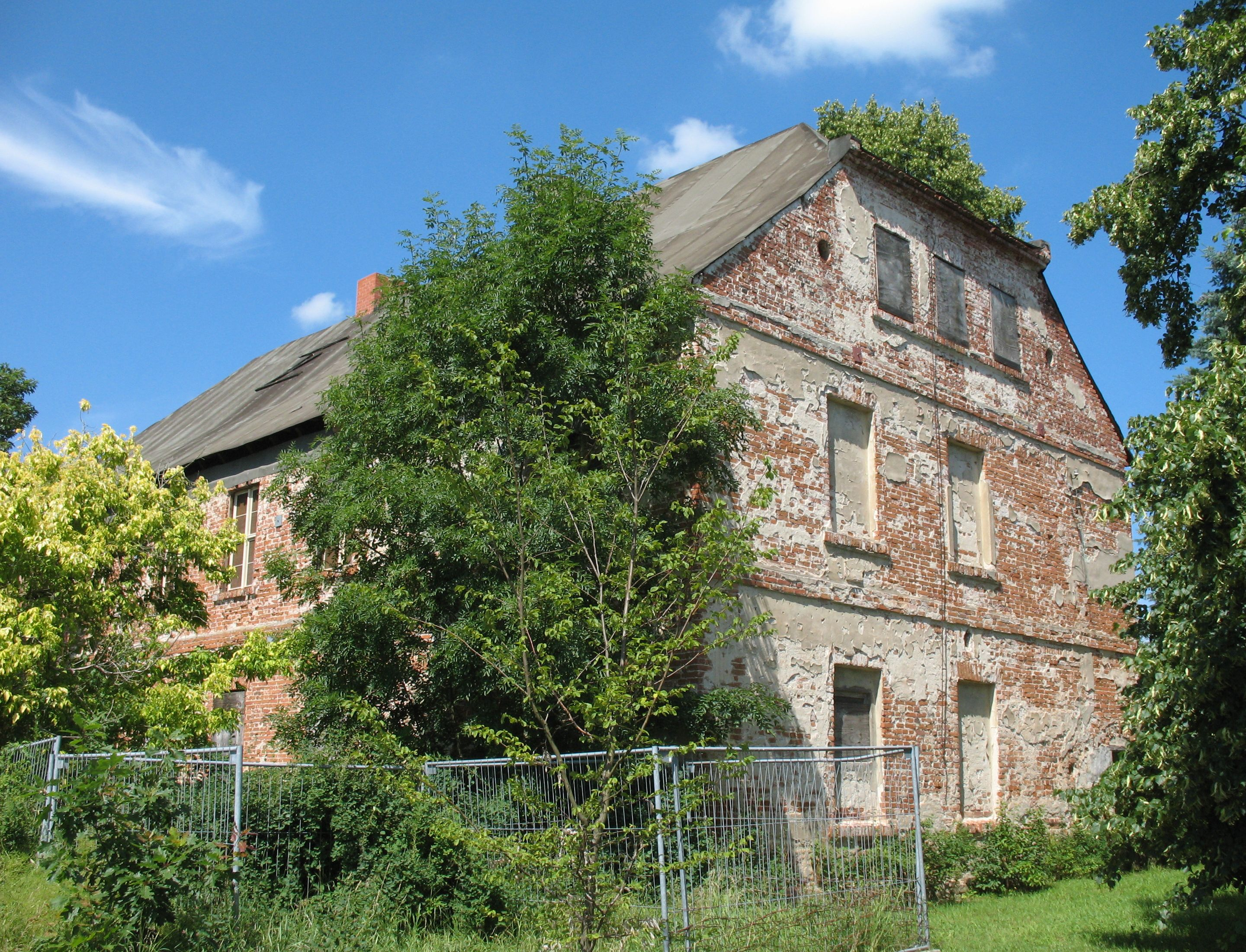 Manor in Mahlenzien in Brandenburg an der Havel in Brandenburg, Germany